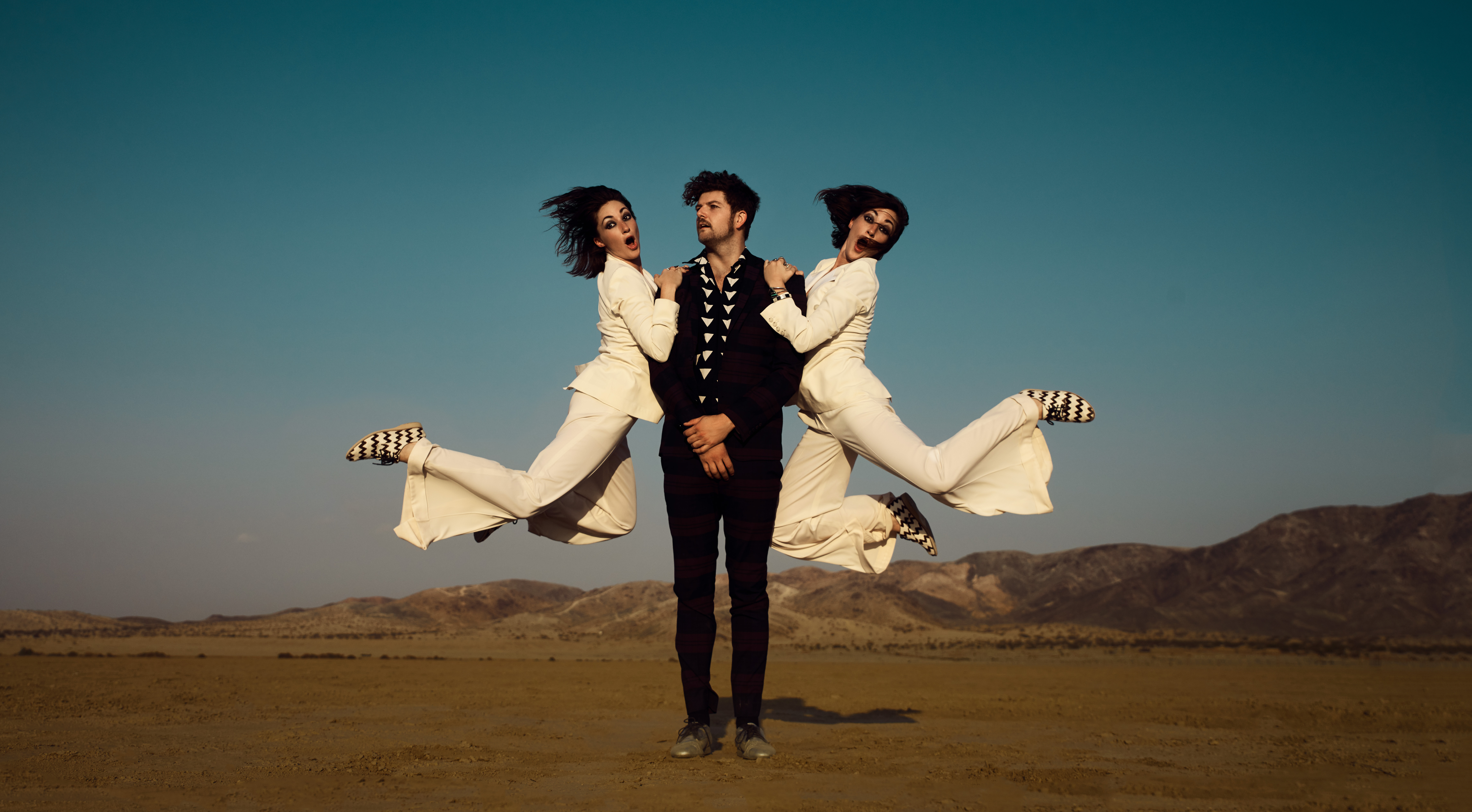 KOLARS, Photographed by Jonas Yuan.